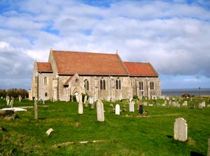 All Saints Church in Mundesley, North Norfolk, UK. Author: Susanne Mason URL